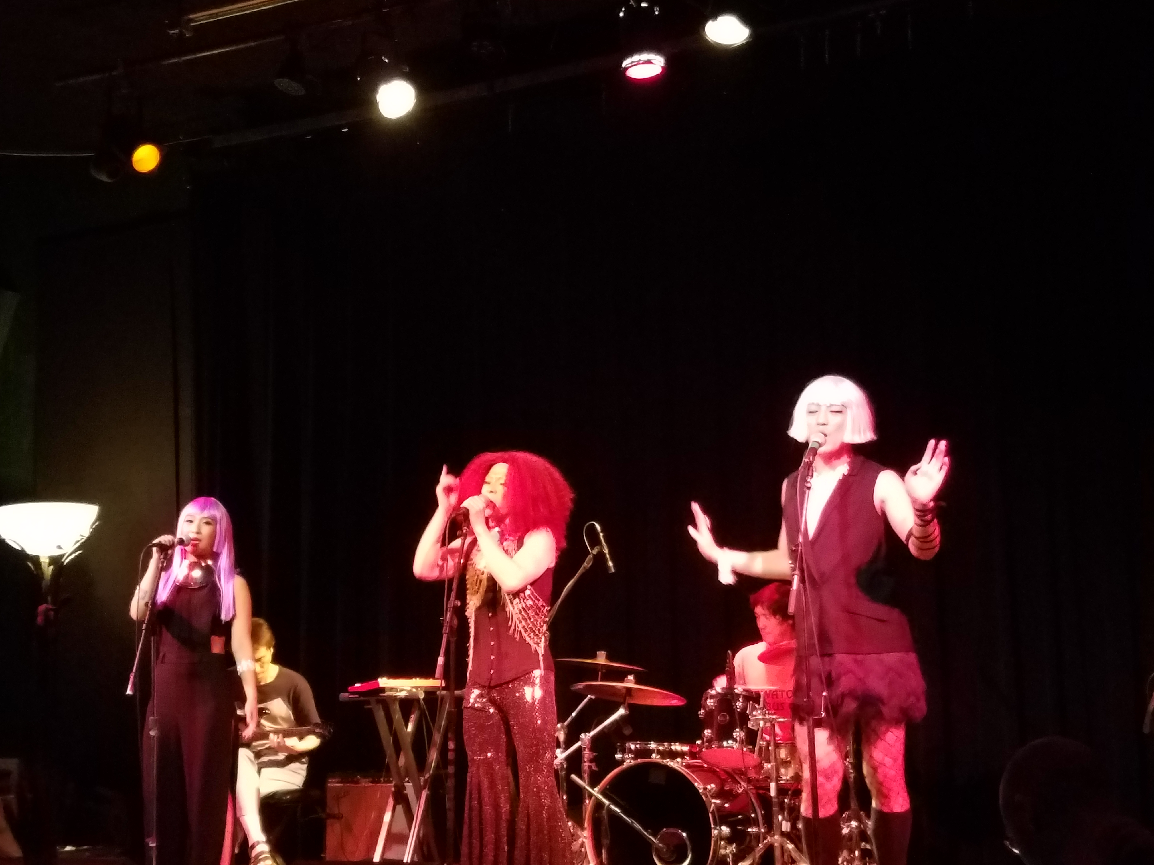 SsingSsing performing live at the Cedar Cultural Center in Minneapolis, MN